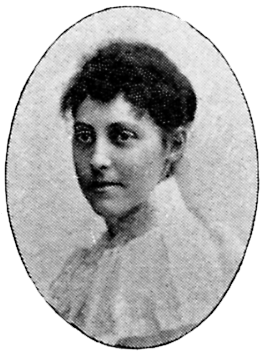 Image scanned from the book "Svenskt Porträttgalleri XX - Arkitekter, Bildhuggare, Målare m.fl. " ("Swedish Portrait Gallery XX - Architects, Sculptors, Painters, ") published 1901